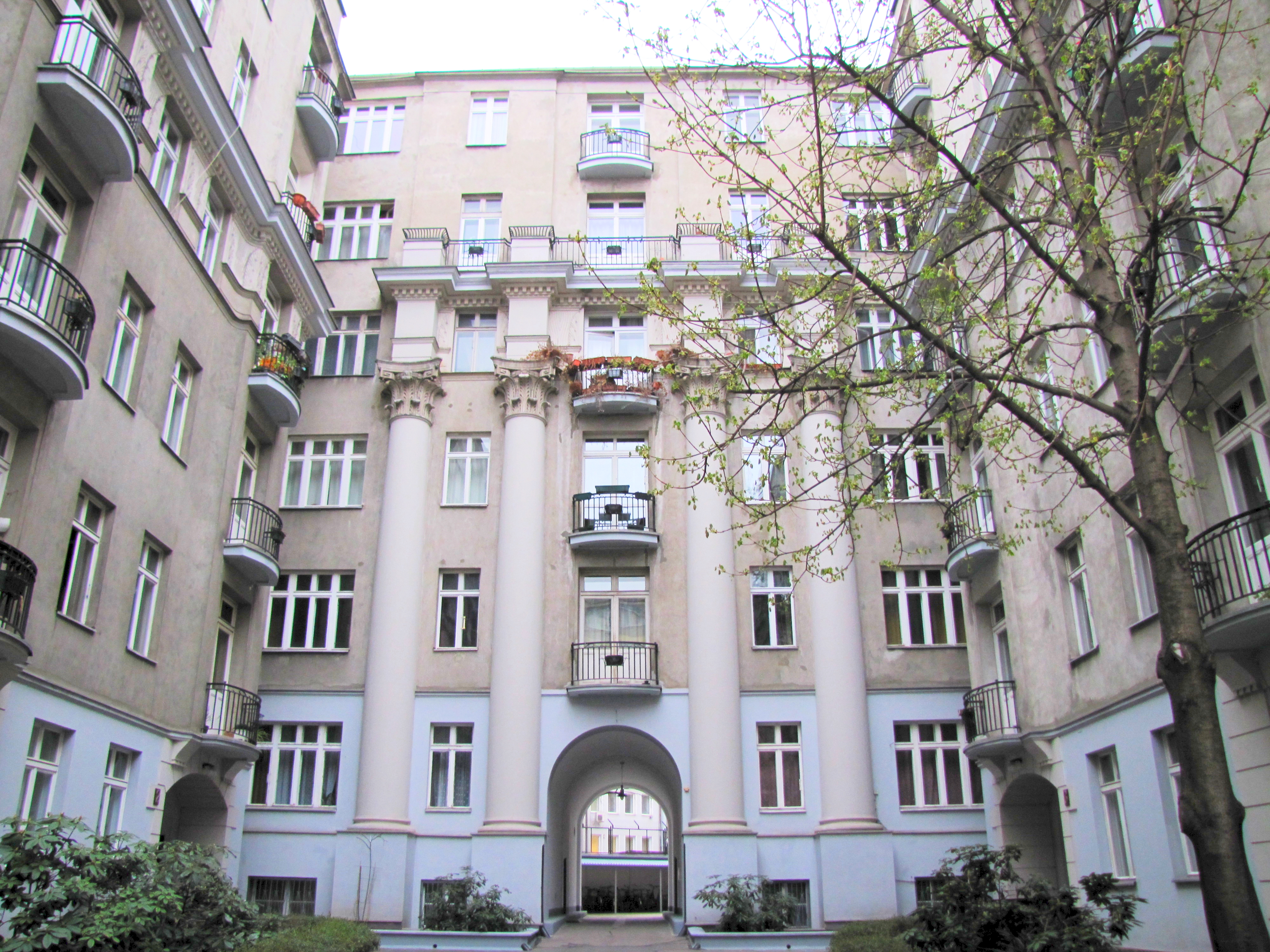 Tenement House, Mokotowska Street 51/53, Warsaw